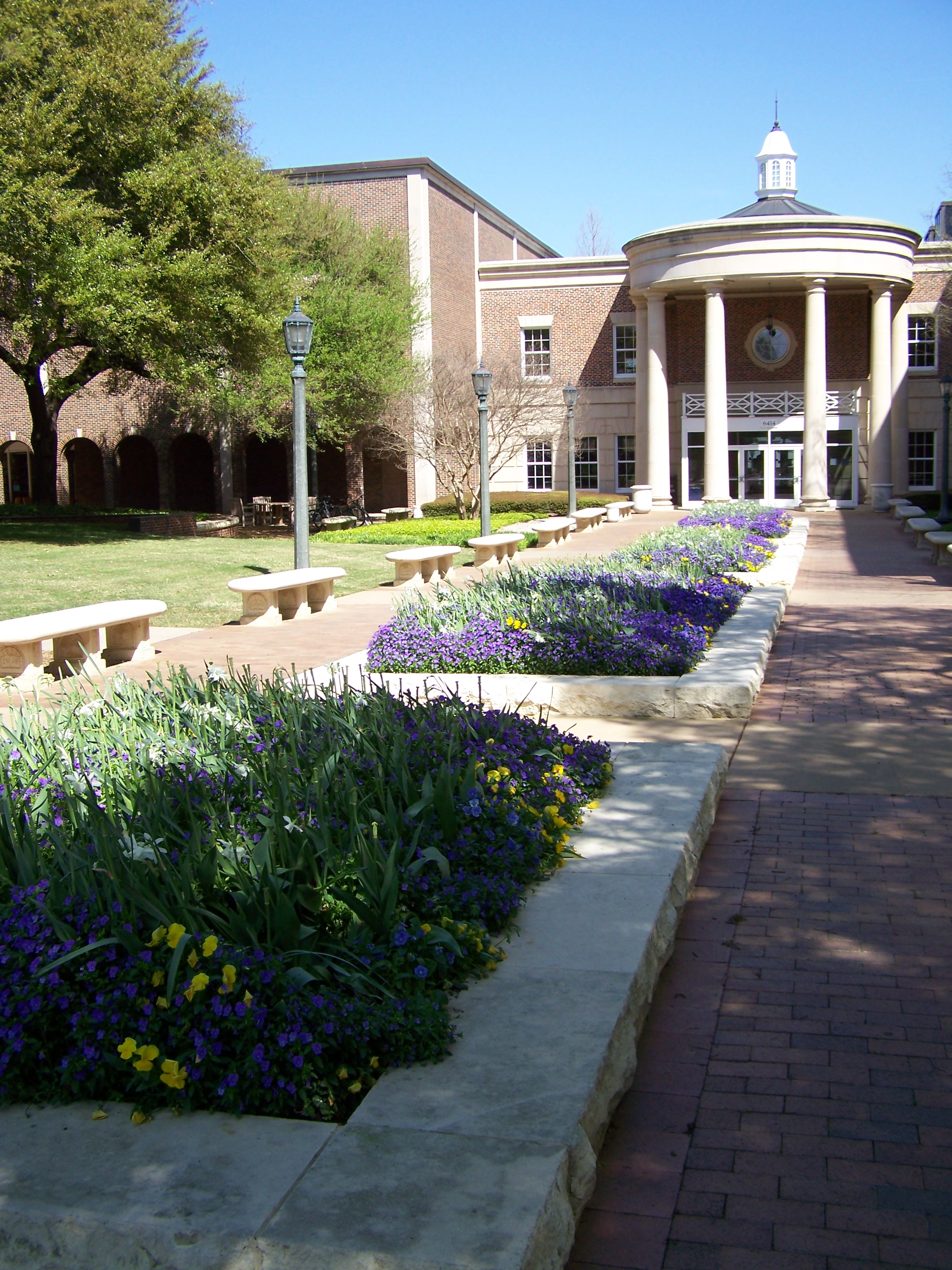 SMU Library